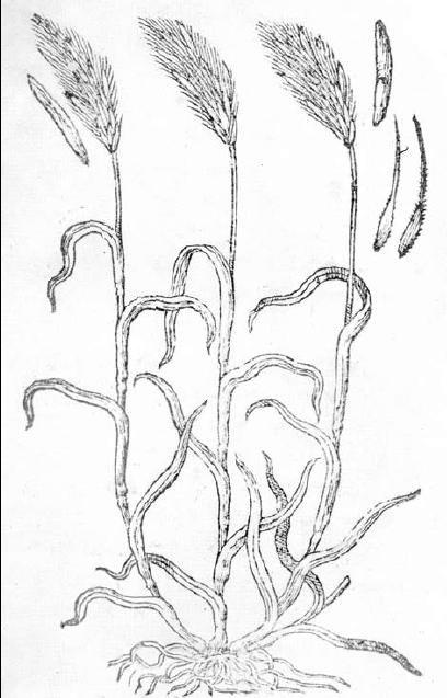 The first known illustration of ergot, from Bauhin’s treatise of 1658; reproduced from Barger, Ergot and Ergotism.